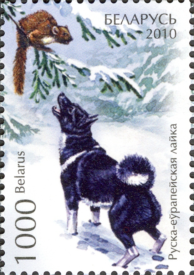 Stamp of Belarus